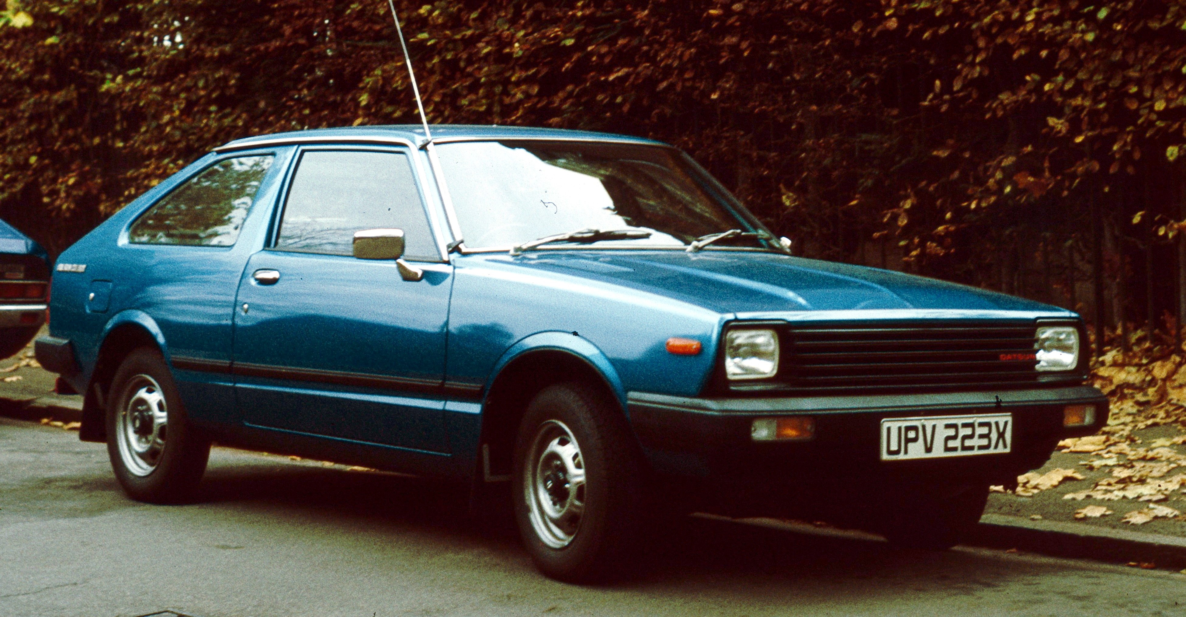 Datsun Cherry in Cambridge. Known as the Nissan Pulsar E10 in some markets. The example above has a "DATSUN" badge on the grille.